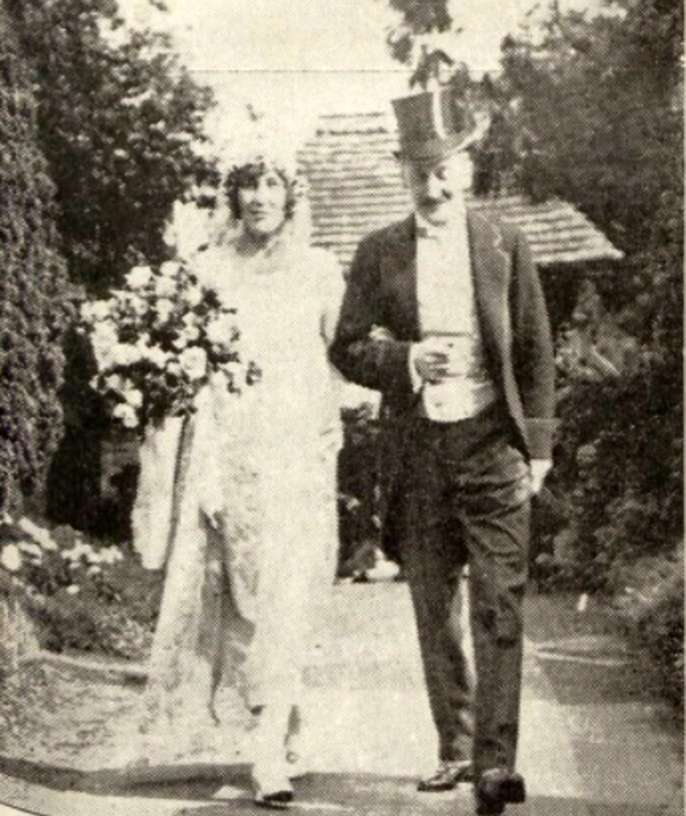 Sylvia Duckworth and her father Arthur Campbell Duckworth of Orchardleigh, Somerset